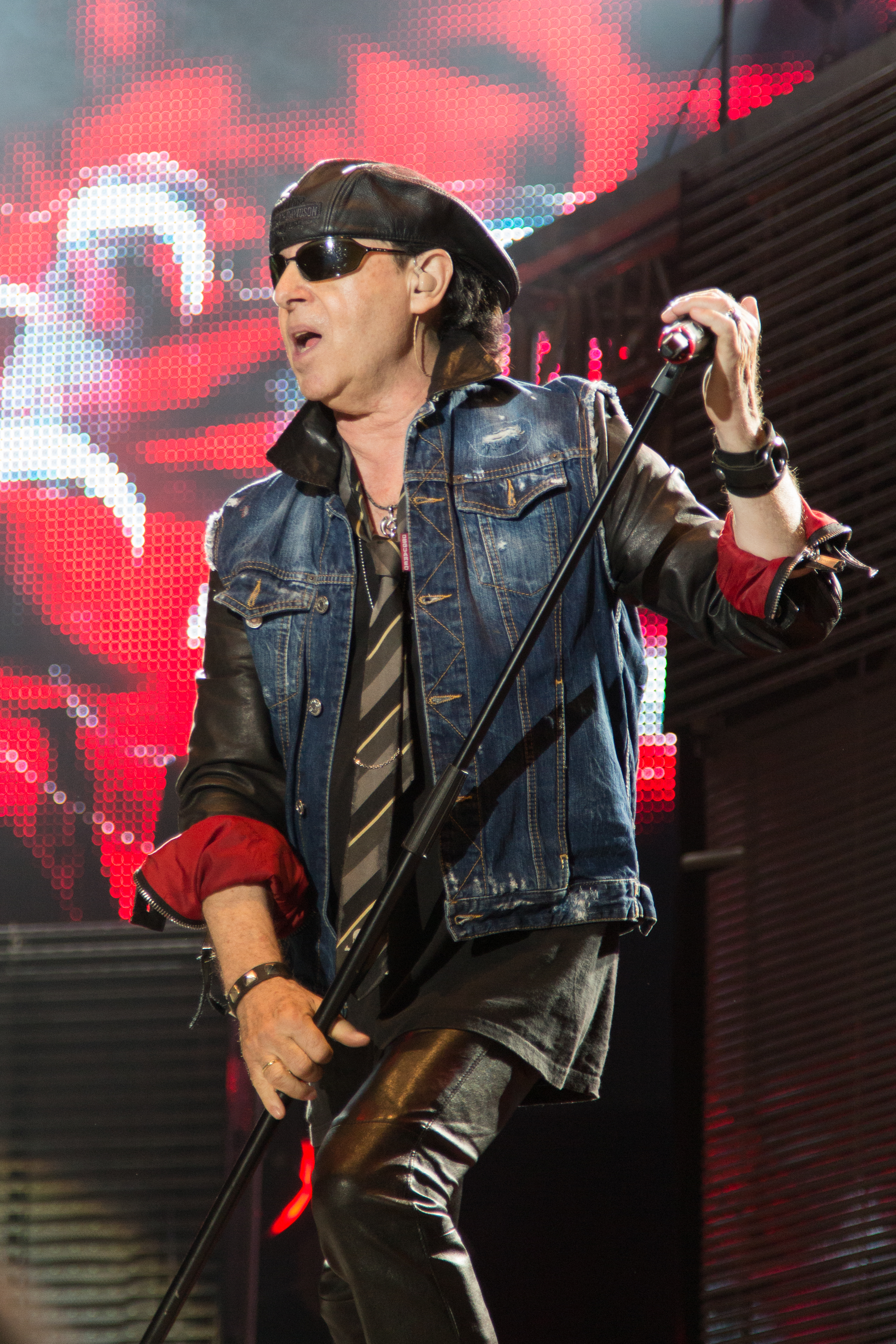 Klaus Meine from the Scorpions at the See-Rock Festival 2014